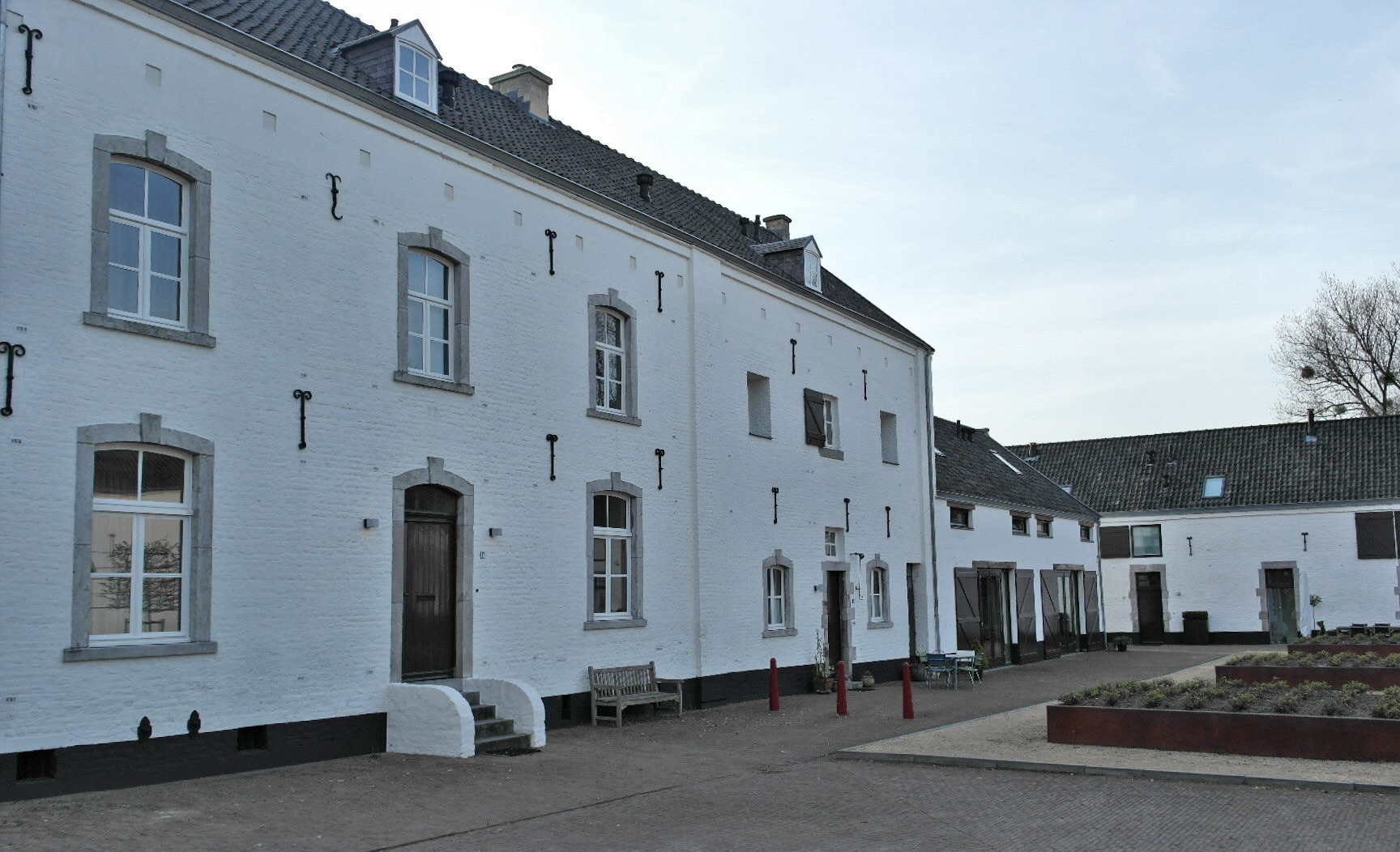 Oud-Valkenburg, Limburg, the Netherlands. View of the castle farm of Genhoes castle.